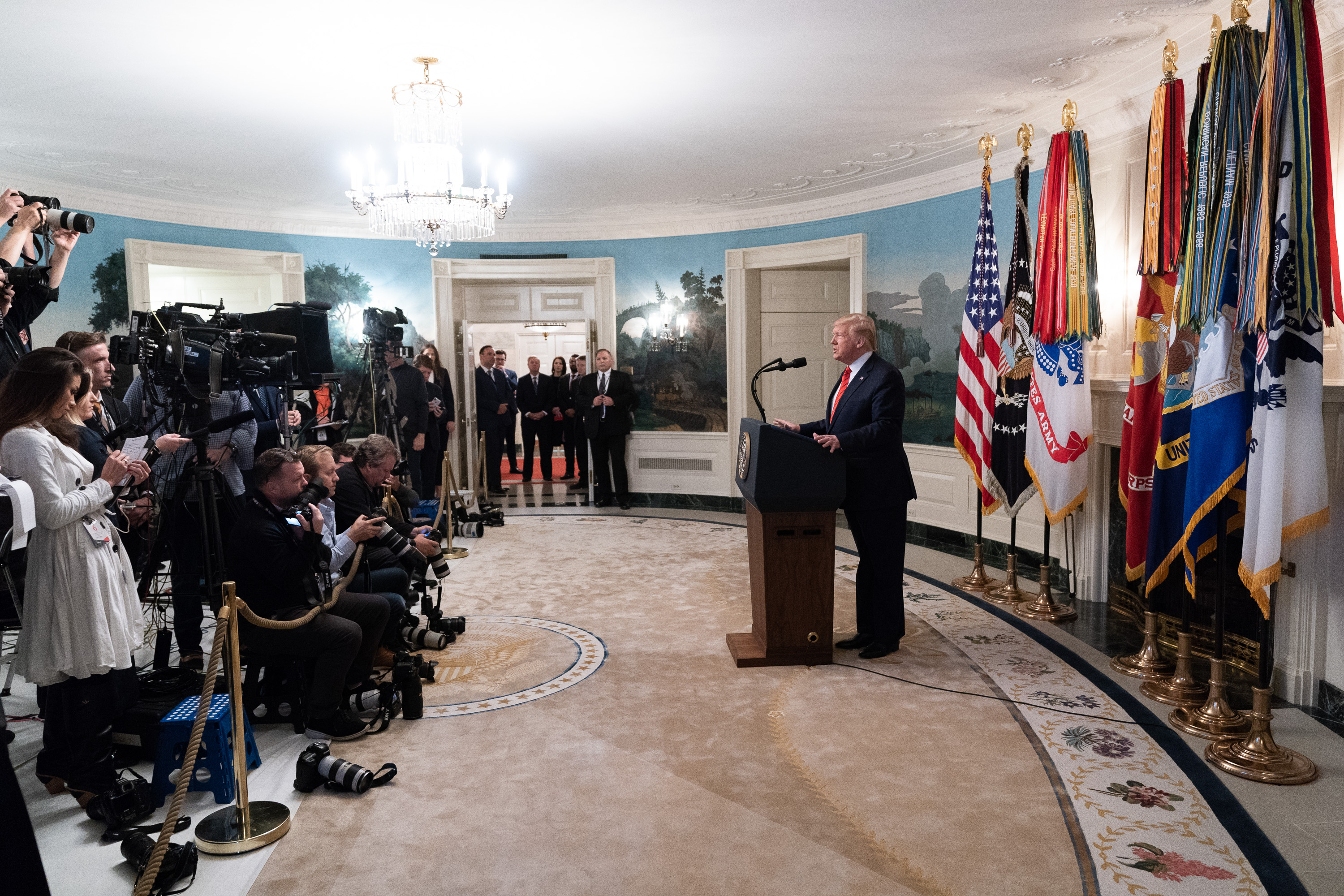 President Donald J. Trump addresses his remarks to the nation Sunday morning, Oct. 27, 2019, in the Diplomatic Reception Room of the White House, to announce details of the U.S. Special Operations Forces mission against notorious ISIS leader Abu Bakr al-Baghdadi’s compound in Syria. (Official White House Photo by Shealah Craighead)